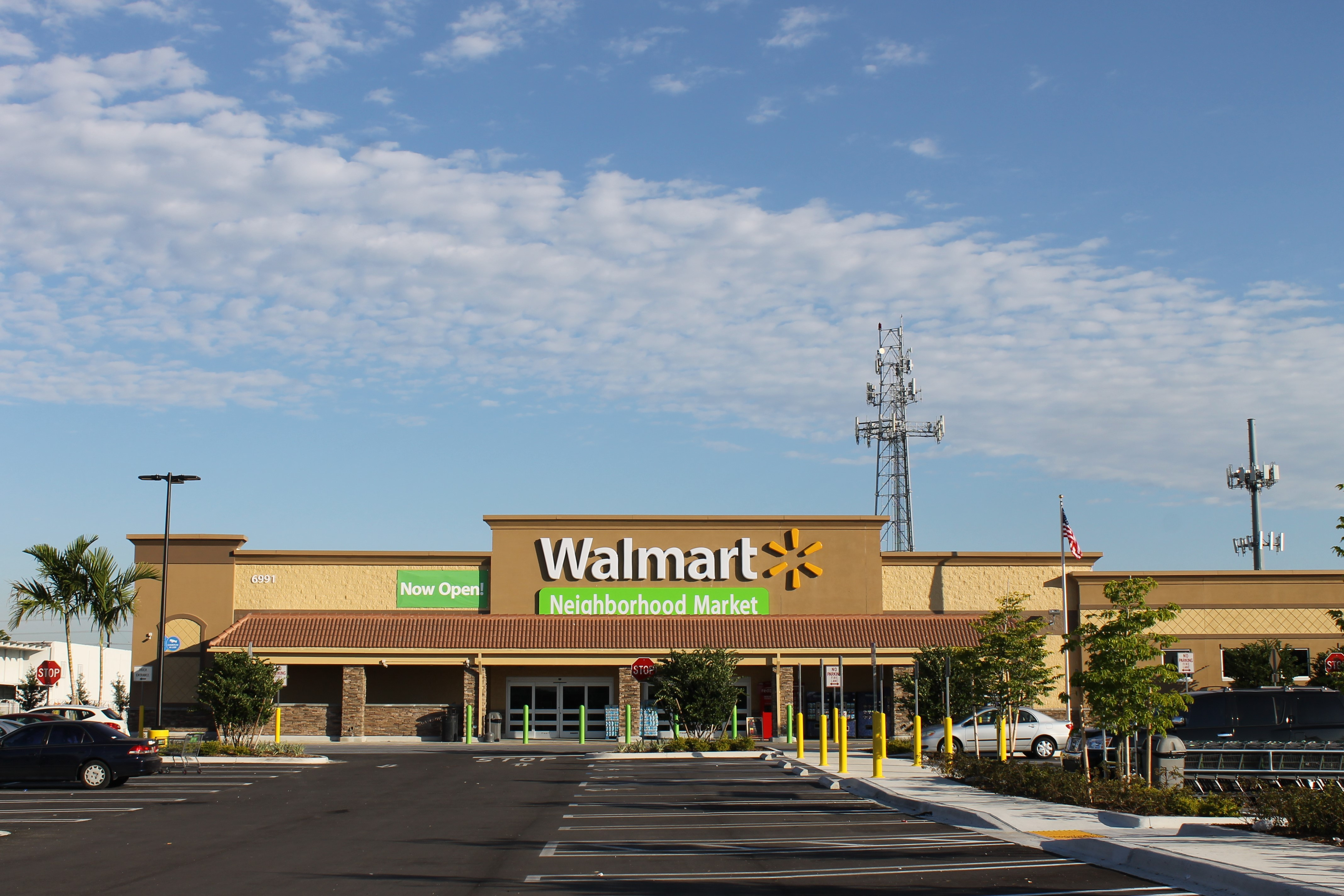 On the western fringes of the city, it is the first and only walmart in the city limits.